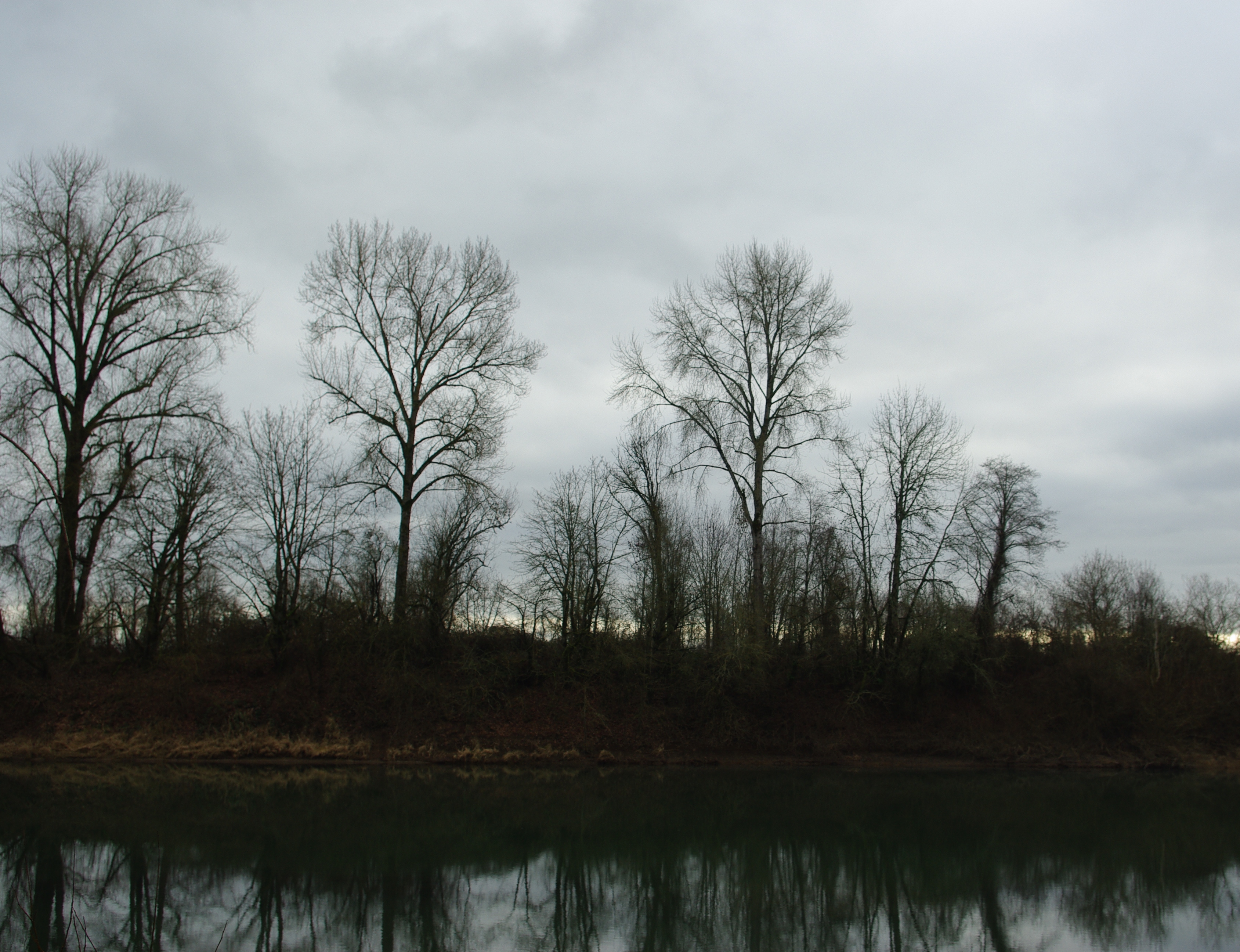 Ash Island from the Chehalem Paddle Launch at Dundee, Oregon, with in the Willamette River in the foreground.